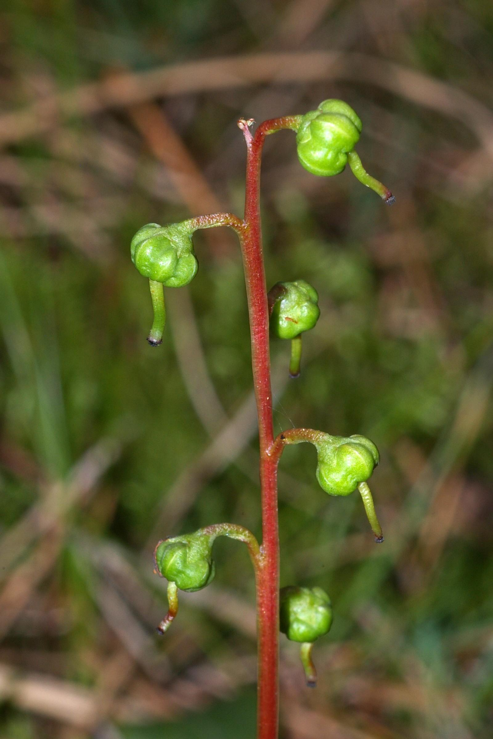 Fruits of Pyrola chlorantha, a few days after flowering.